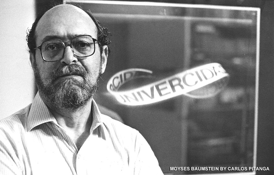 Moysés Baumstein picture in his Sao Paulo studio with his hologram UNIVERCIDADE